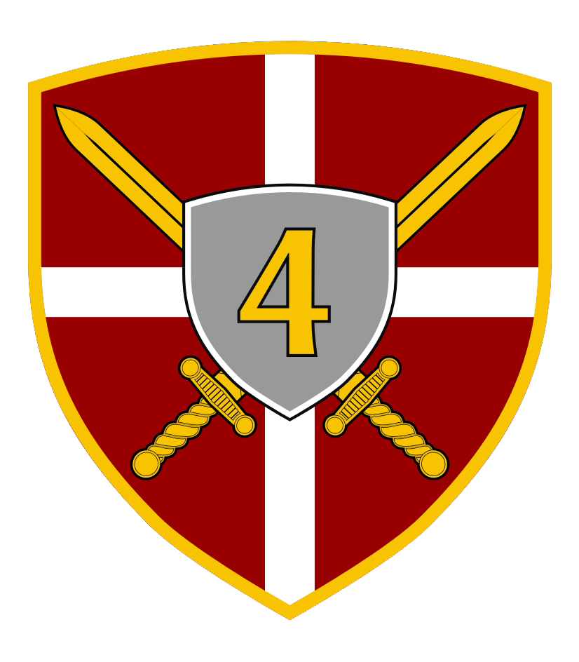 4th Brigade SLF patch